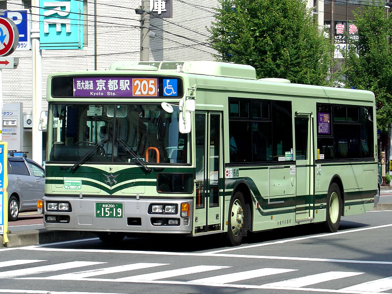 Kyoto City Bus car. Photograph taken by JKT. Originally uploaded to Japanese Wikipedia by the photographer.